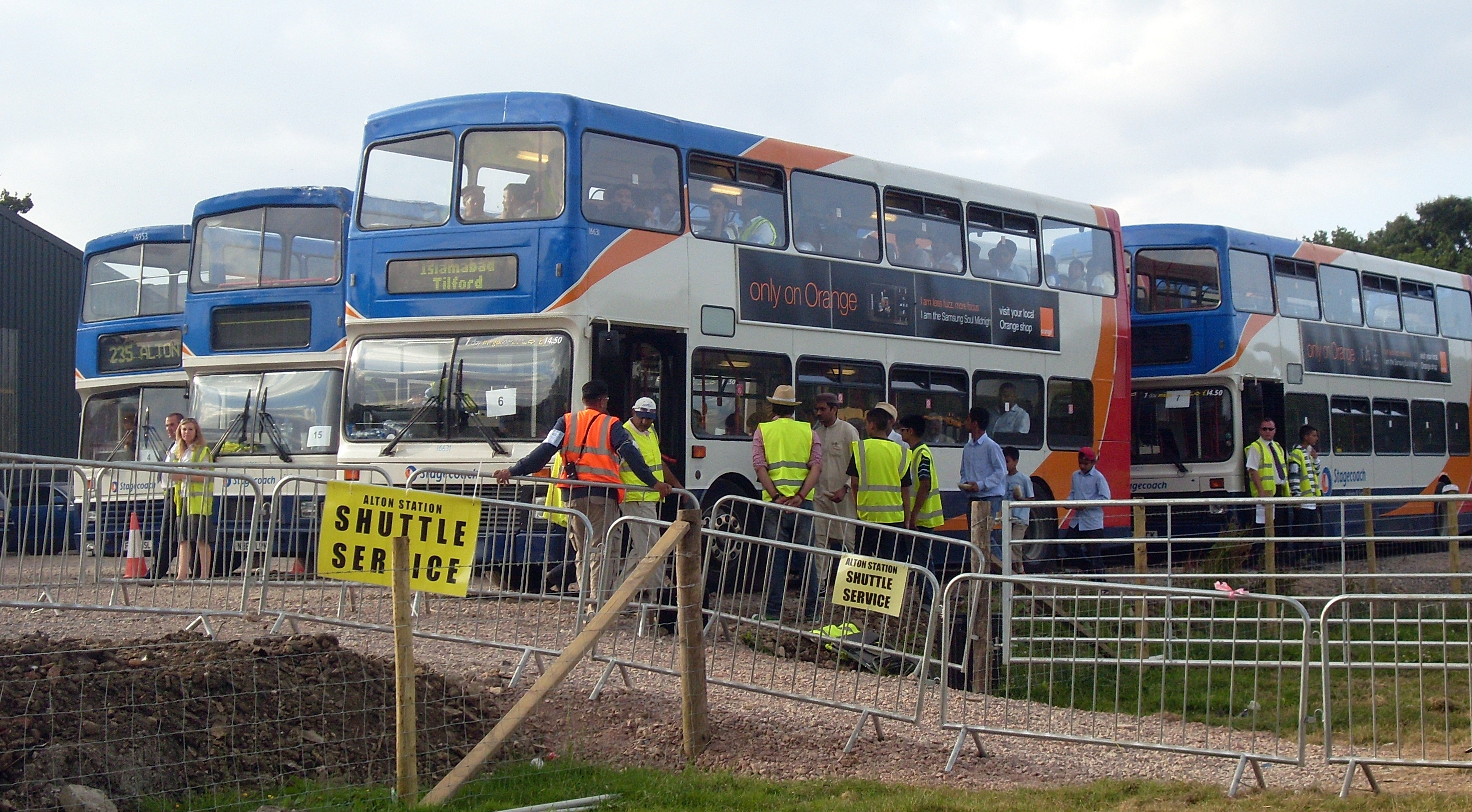 Shuttle service during Jalsa Salana 2008, United Kingdom